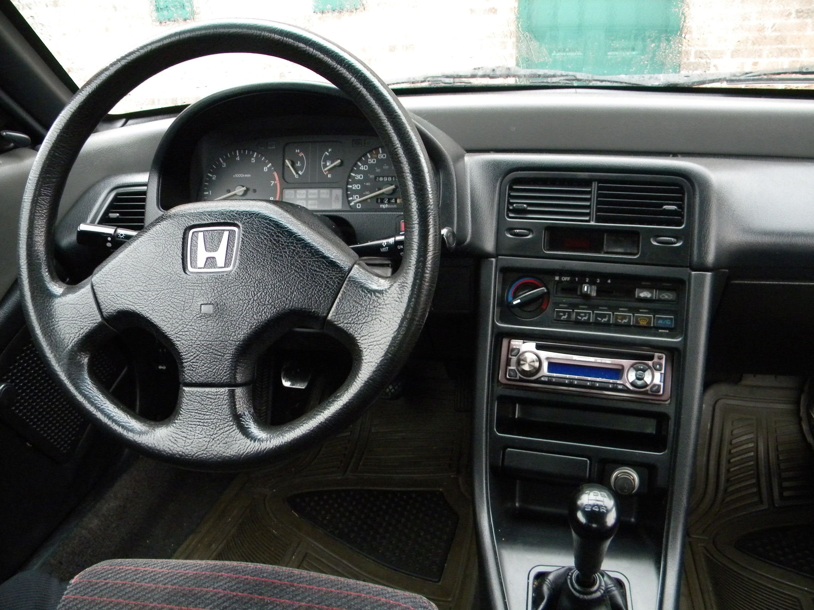 Honda CRX interior